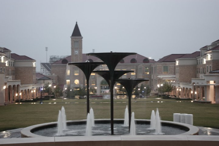 TCU Rainy Day